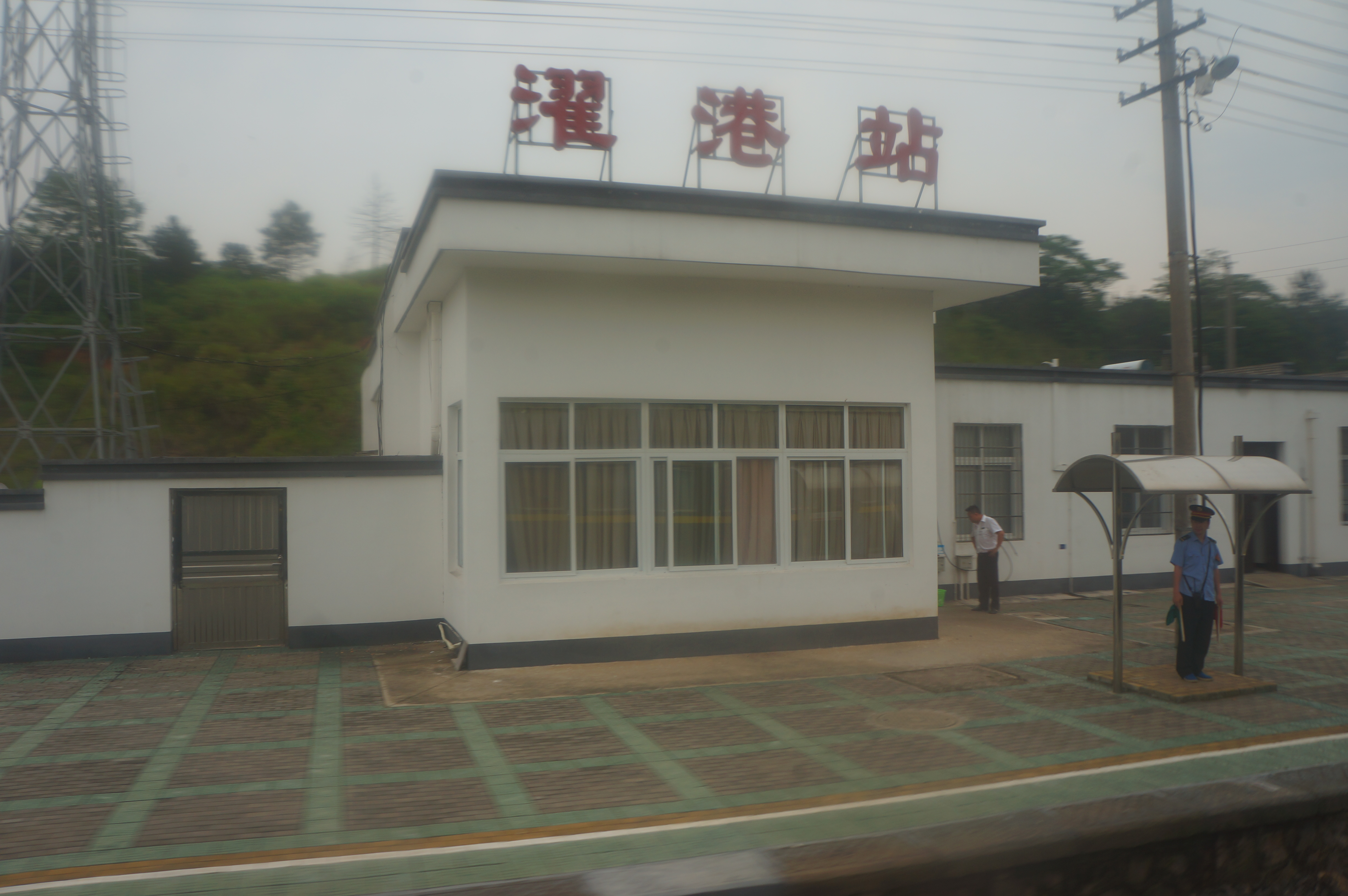 201705 Station building of Zhuogang. Well decorated building because of its border station status?